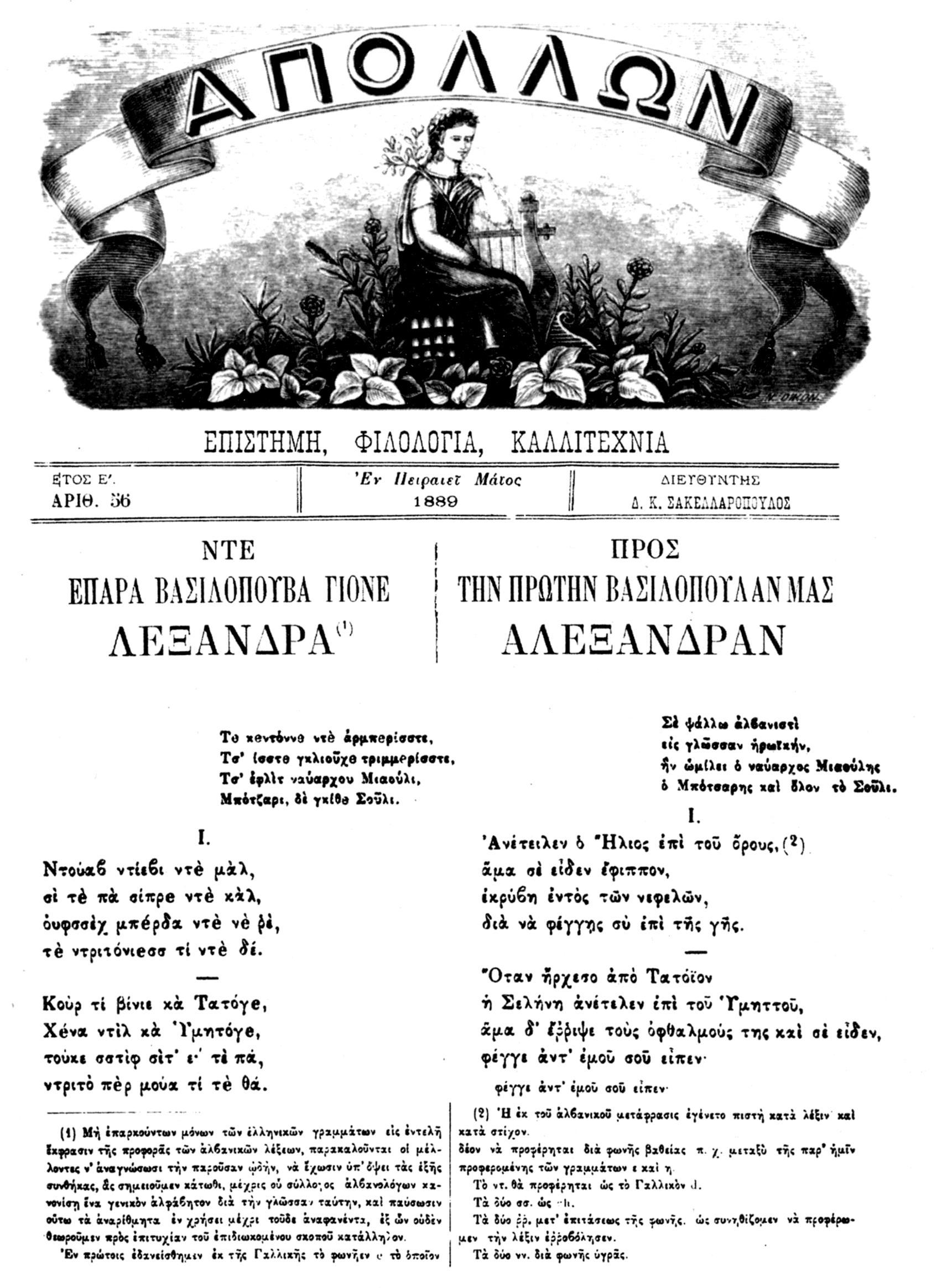 Opening verses of a poem composed in Arbërishte, with Greek translation, honouring Princess Alexandra's marriage to the Archduke Paul of Russia.